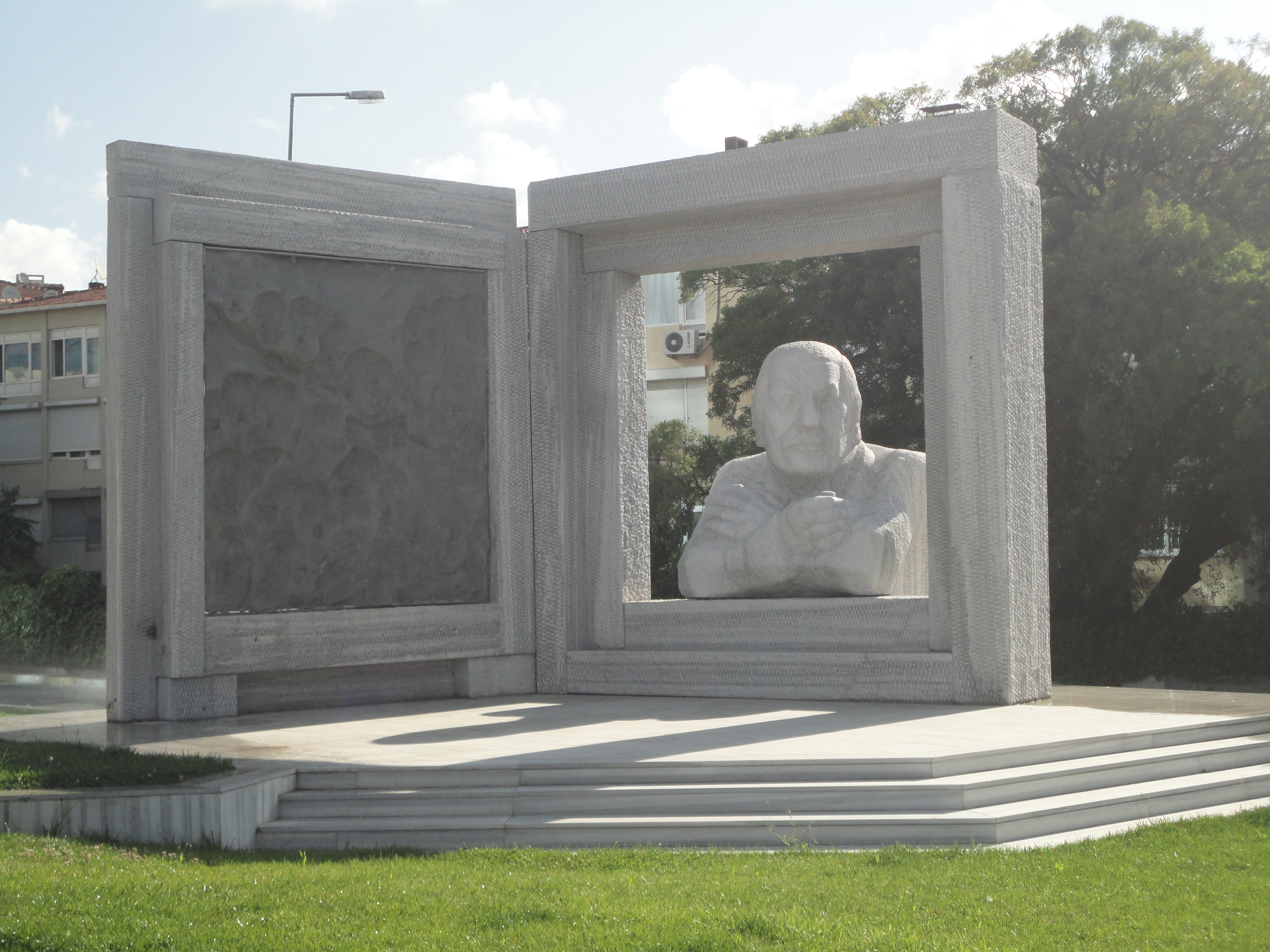 Ilhan Selcuk Statue and the reliefs founders of Turkish enlightenment, by Mehmet Aksoy